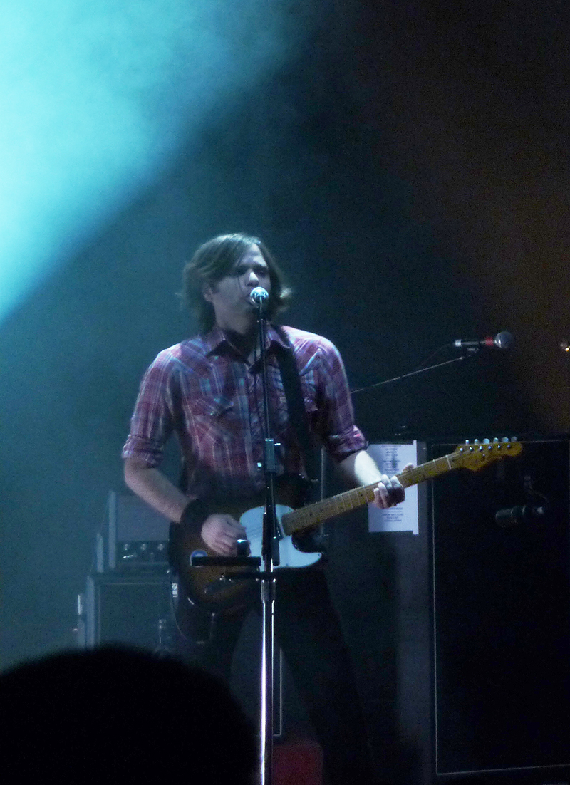 Ben Gibbard performing at the Orpheum Theater in Memphis in 2009.